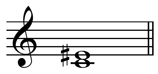 Augmented third on C = E♯. Just: 125:96 = 456.99 cents. Equal-tempered: 25/12:1 = 500 cents.